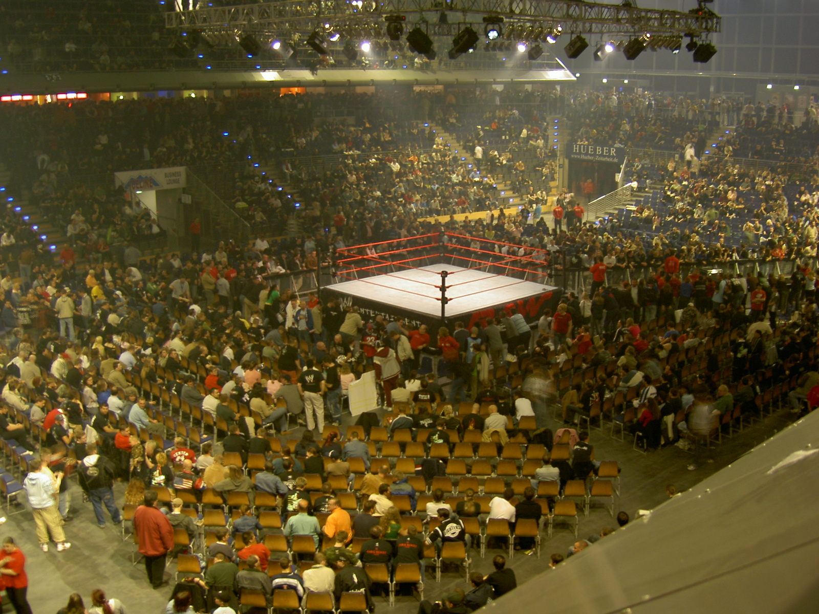 Max-Schmeling-Halle (WWE Wrestle Mania Revenge Tour) in Berlin (Germany)